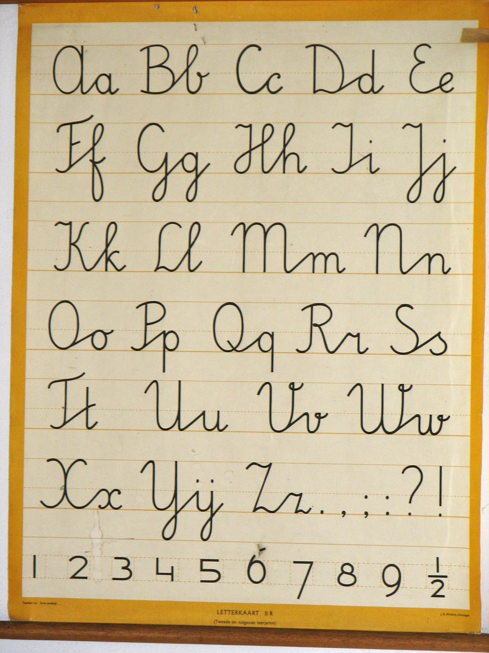 Writingletters as they were taught in the Netherlands until the nineties